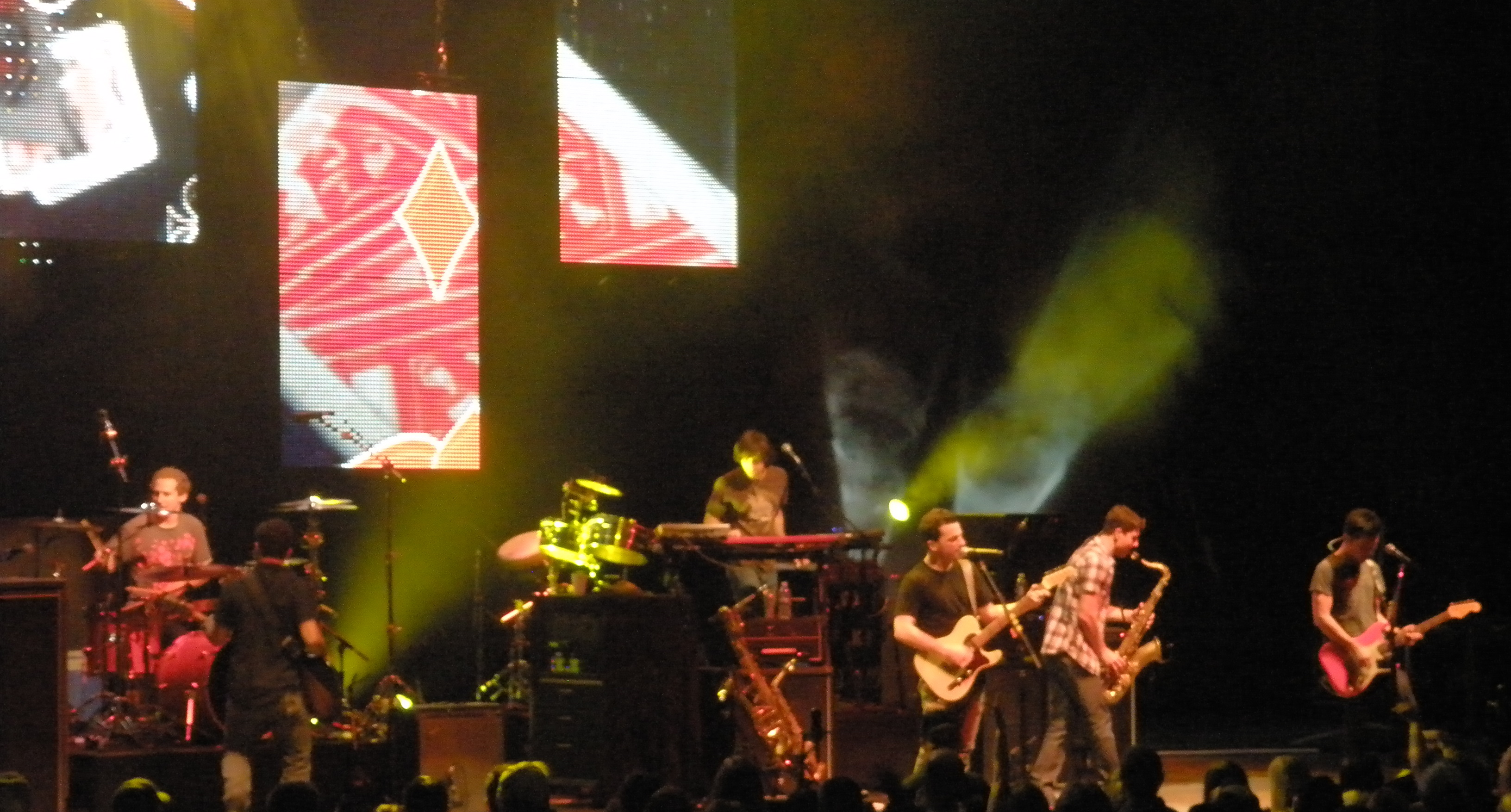 Photo of O.A.R in concert from their 2010-08-09 show at Saratoga Performing Arts Center